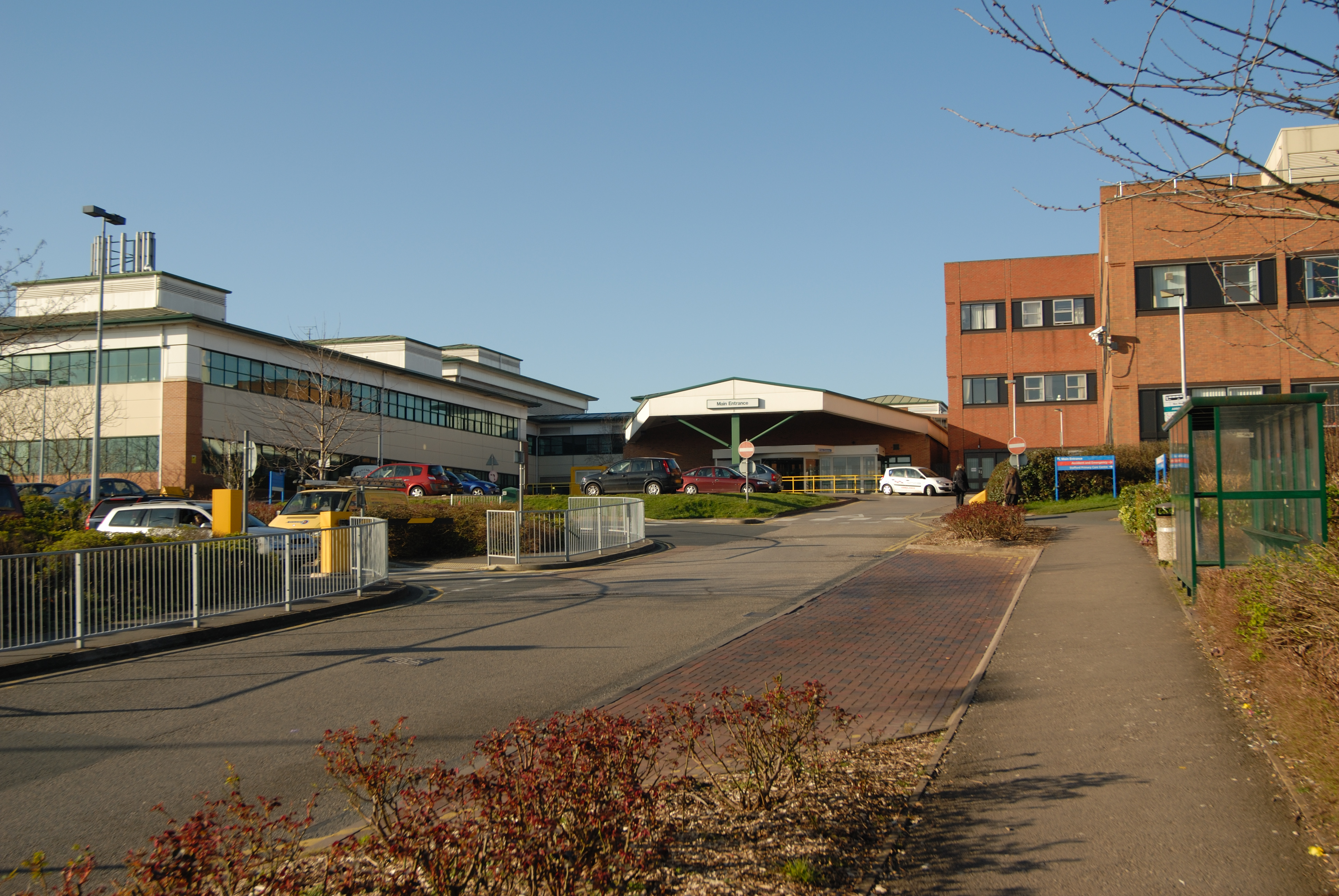 Entrance to Stafford Hospital UK. Released under the attached licence 2011 by Alistair Rose